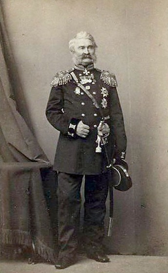 Eduard Vladimirovich Brummer